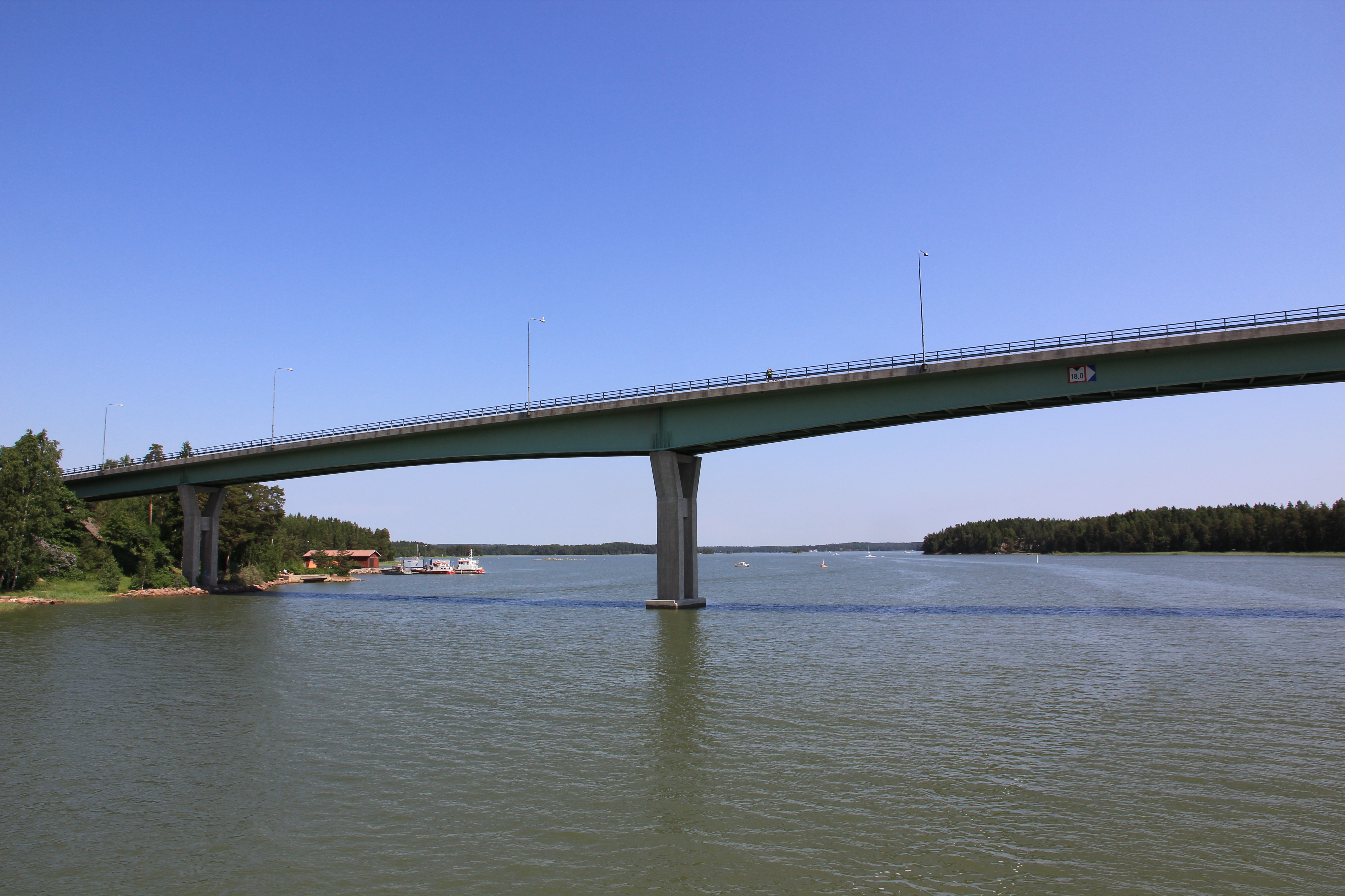 Northern half of Emäsalo bridge seen from west. Porvoo fire department boats PM-1 Marléne, PM-4 and PM-28 are moored at a pier. The area is close to the Porvoo oil refinery.